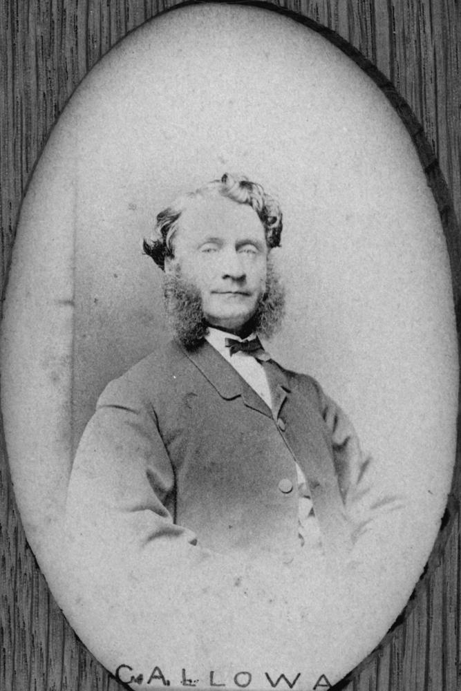 Honourable John James Galloway, member of the first Queensland parliament, 1860.